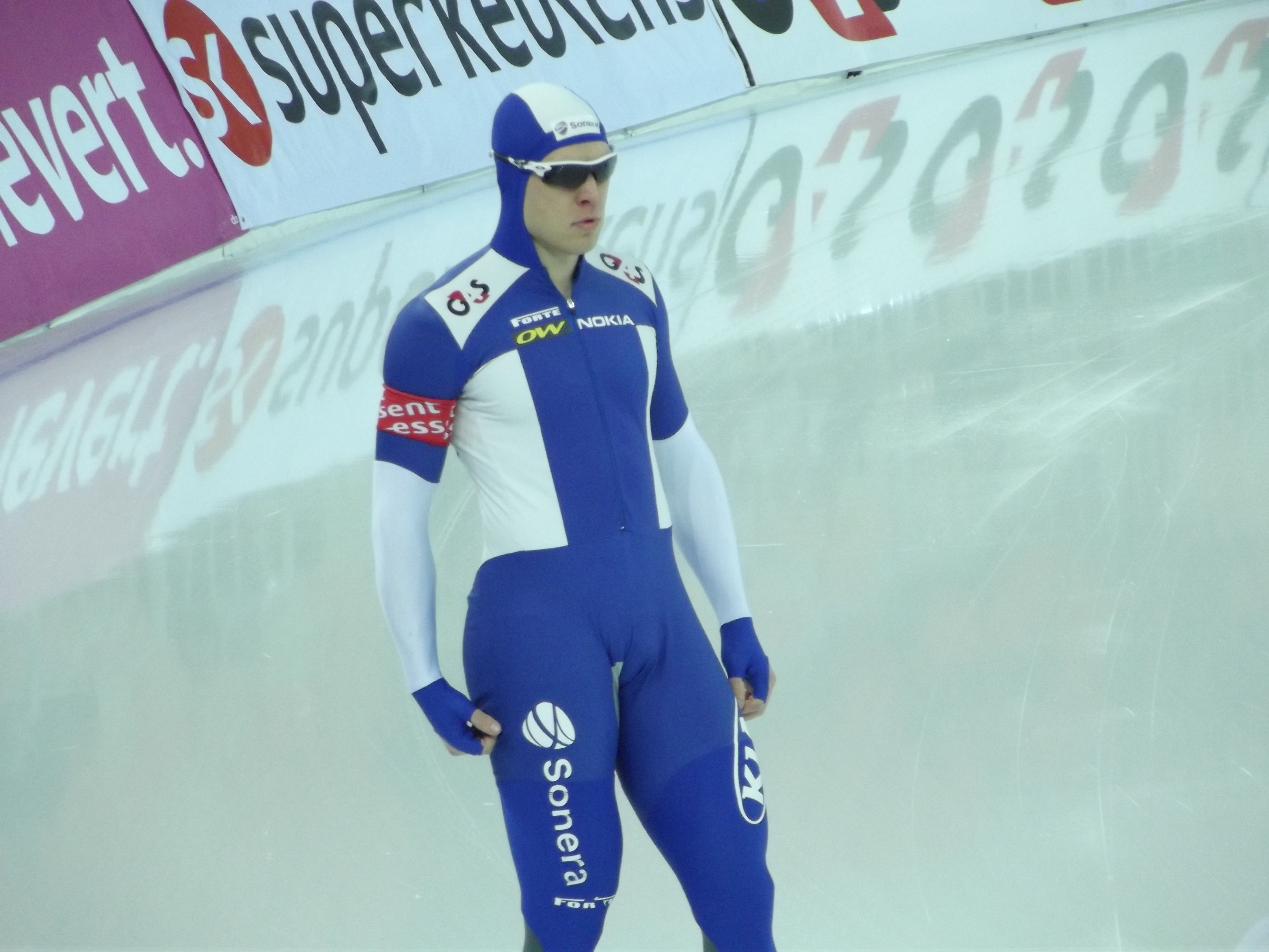 2013 World Single Distance Speed Skating Championships